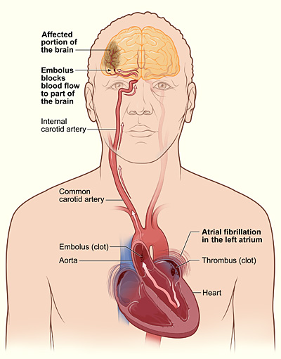 The illustration shows how a stroke can occur during atrial fibrillation. A blood clot (thrombus) can form in the left atrium of the heart. If a piece of the clot breaks off and travels to an artery in the brain, it can block blood flow through the artery. The lack of blood flow to the portion of the brain fed by the artery causes a stroke.